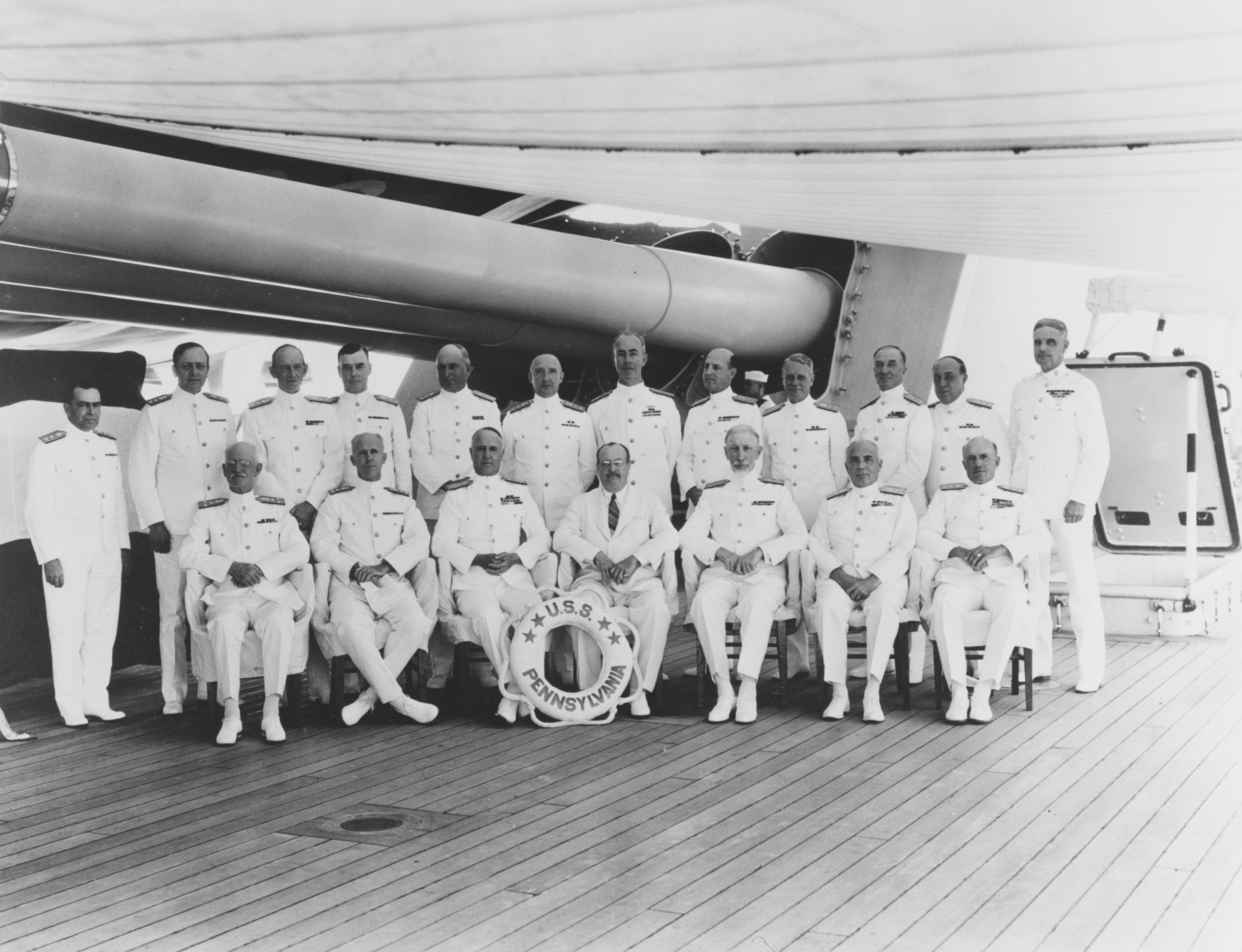 Photo #: NH 76413 (complete caption) Assistant Secretary of the Navy Henry L. Roosevelt (seated, center), and Admiral David Foote Sellers, USN (seated, left center), Commander in Chief, U.S. Fleet With other U.S. Fleet flag officers, on board USS Pennsylvania in the Spring of 1934. Those present are (seated, left to right): Vice Admiral Walton R. Sexton, Commander Battleships, Battle Force; Vice Admiral Frank H. Brumby, Commander, Scouting Force; Admiral Sellers; Assistant Secretary Roosevelt; Admiral Joseph M. Reeves, Commander, Battle Force; Vice Admiral Harris Laning, Commander Cruisers, Scouting Force; and Rear Admiral Thomas T. Craven, Commander Battleship Division ONE. Standing, left to right: Rear Admiral William S. Pye, Chief of Staff to Commander, Scouting Force; Rear Admiral Adolphus Andrews, Chief of Staff to Commander, Battle Force; Rear Admiral Frederick J. Horne, Commander, Base Force; Rear Admiral Charles E. Courtney, Commander Cruisers, Battle Force; Rear Admiral Edward C. Kalbfus, Commander Destroyers, Battle Force; Rear Admiral Charles P. Snyder, Chief of Staff to Commander in Chief, U.S. Fleet; Rear Admiral John Halligan, Commander Aircraft, Battle Force; Rear Admiral Henry E. Lackey, Commander Cruiser Division FOUR; Rear Admiral Adolphus E. Watson, Commander Destroyers, Scouting Force; Rear Admiral Charles R. Train; Rear Admiral Manley H. Simons, Chief of Staff to Commander Cruisers, Scouting Force; and Brigadier General Charles H. Lyman, Commander Fleet Marine Force. Courtesy of Rear Admiral C.H. Lyman, USN(Retired), 1972. U.S. Naval Historical Center Photograph, from website.